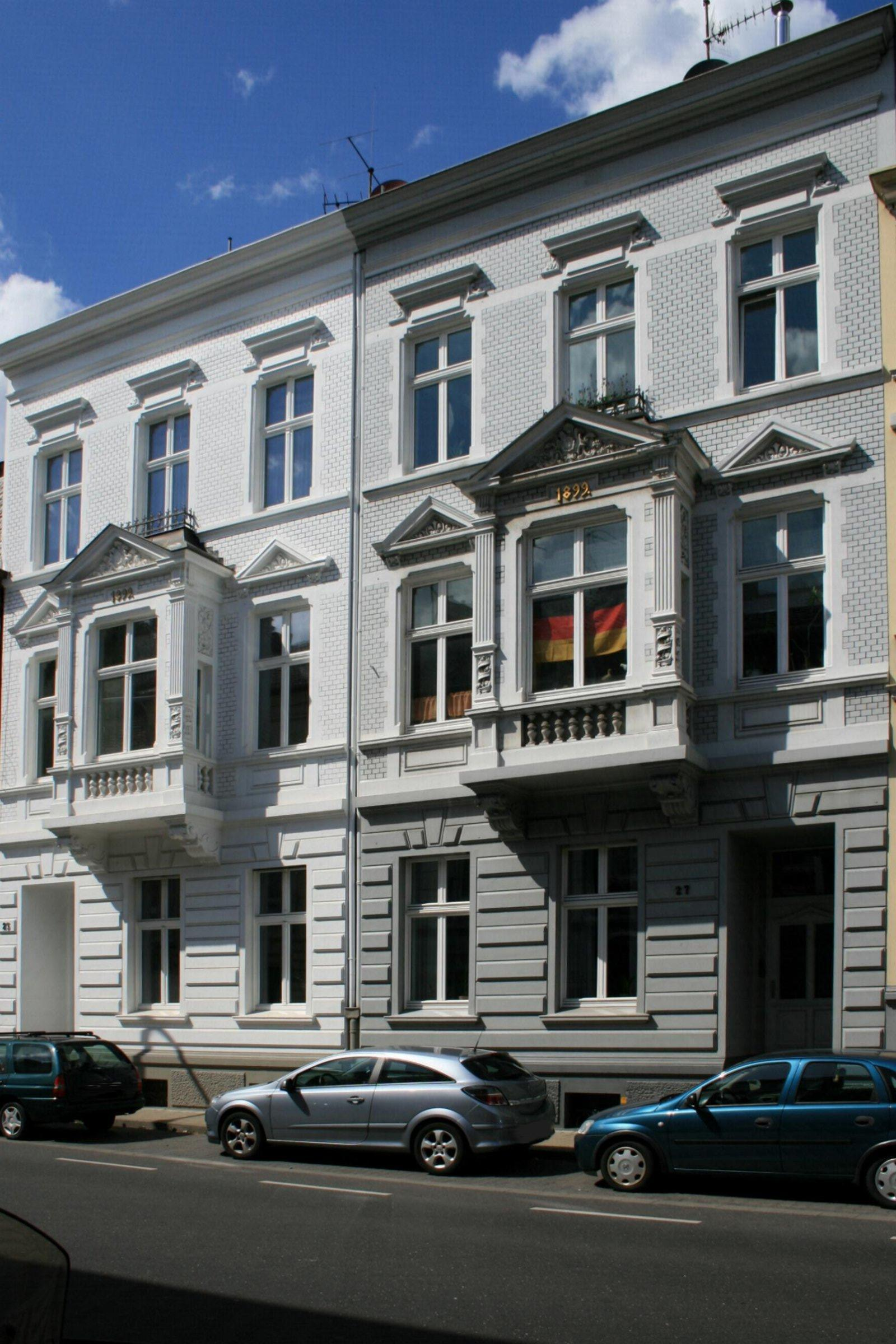 Cultural heritage monument No. D 005 in Mönchengladbach